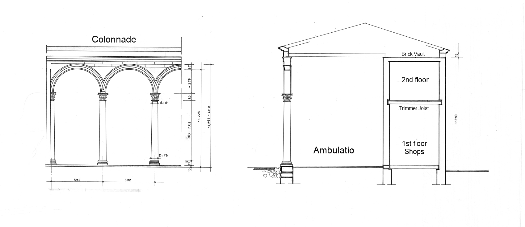 Plan of the colonnade of the Forum in Plovdiv based on drawings from the archive of NIICH made by arch. V.Kolarova, arch.N.Buchkova, arch. R.Proykova in June 1985.